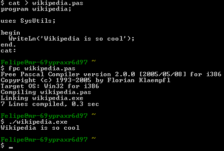 Screenshot of the Free Pascal Compiler being operated from the command line on cygwin